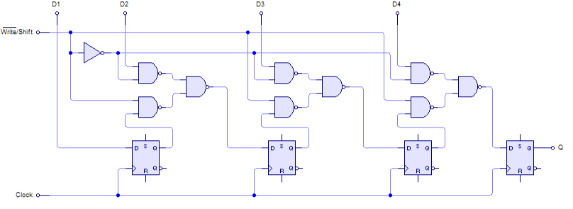 Diagram of a 4-Bit PISO Shift Register